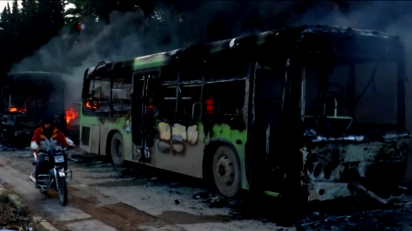 During the evacuation, rebel factions burnt buses meant to evacuate sick and elderly civilians from Aleppo.